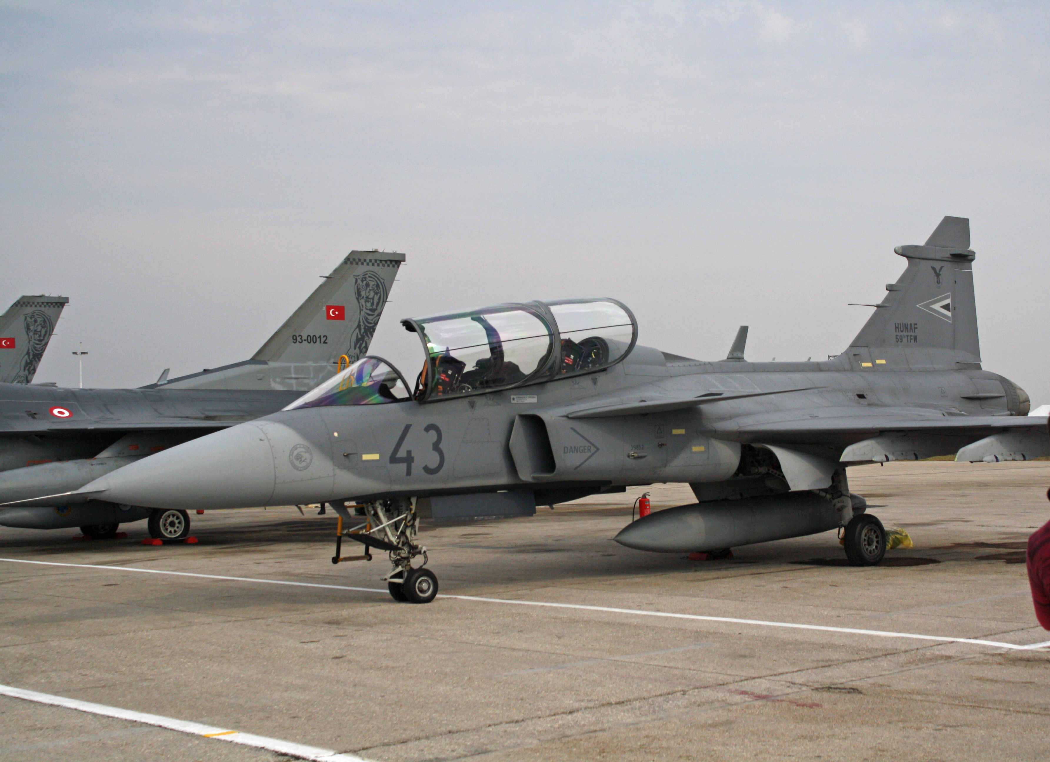 JAS-39D No.43 of Hungarian Air Force on display at Batajnica airbase during the international Batajnica 2009 airshow Мађарски ЈАС-39Д Грипен бр.43 изложен на Батајничком аеродрому за време међународног аеромитинга Батајница 2009.